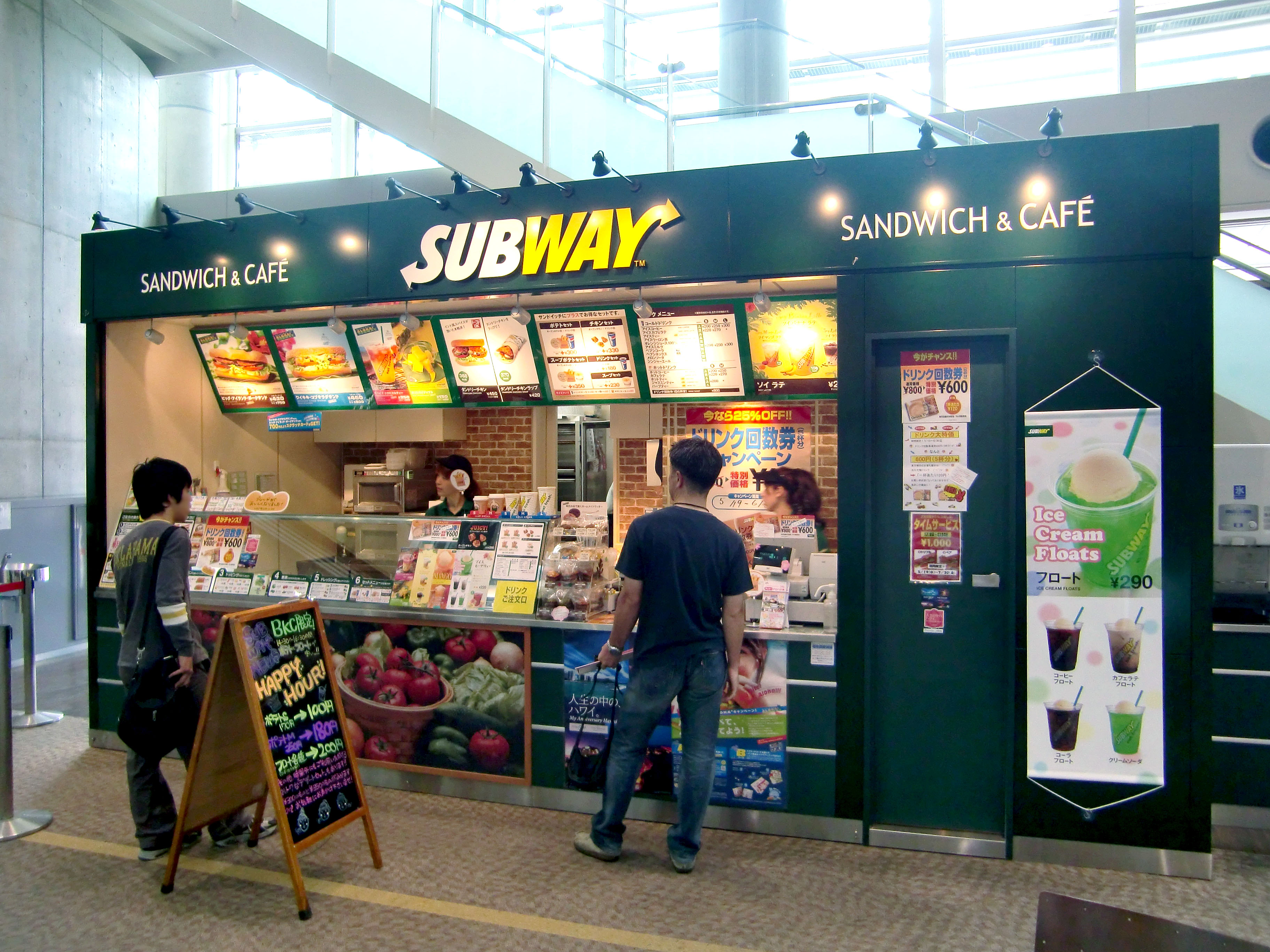 SUBWAY Ritsumeikan University BKC,1-1-1 Nojihigashi Kusatsu-City Shiga JAPAN.